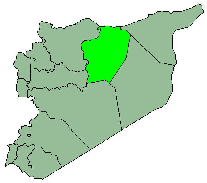 The Syrian governorate of ar-Raqqah.